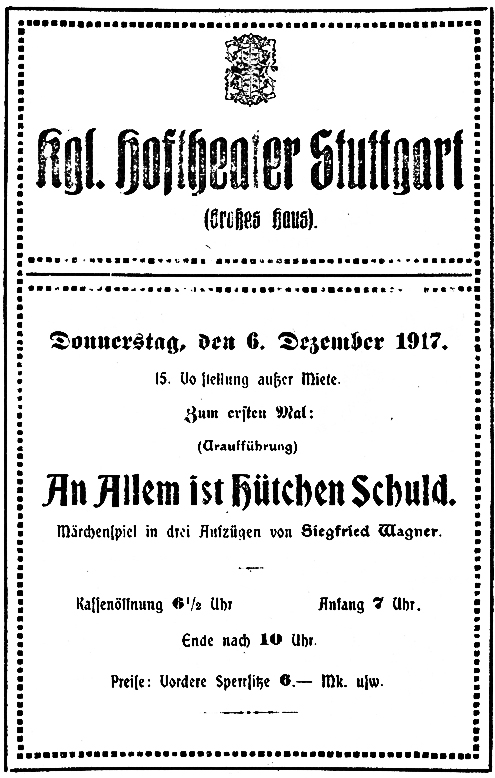 Siegfried Wagner - Announcement for the first performance of An allem ist Hütchen schuld! - Stuttgart 1917